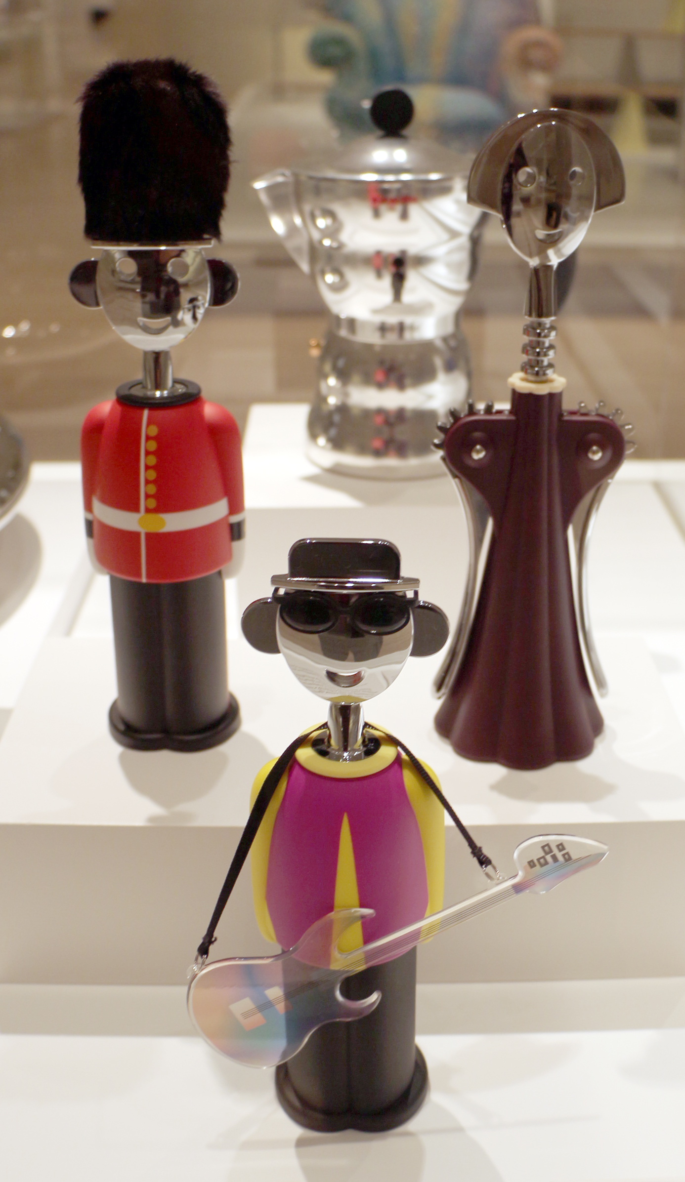 Metalware in the Indianapolis Museum of Art